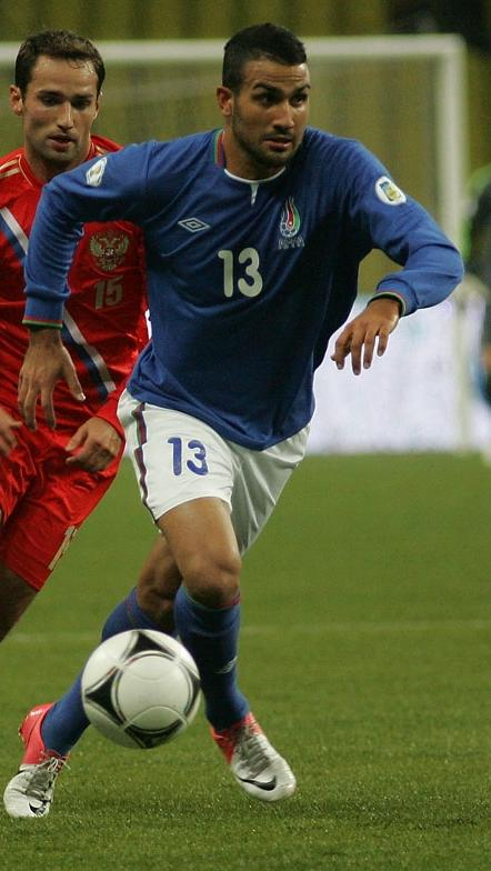 Ali Gökdemir playing for Azerbaijan in an 2014 FIFA World Cup qualifier against Russia in Moscow in 2012.